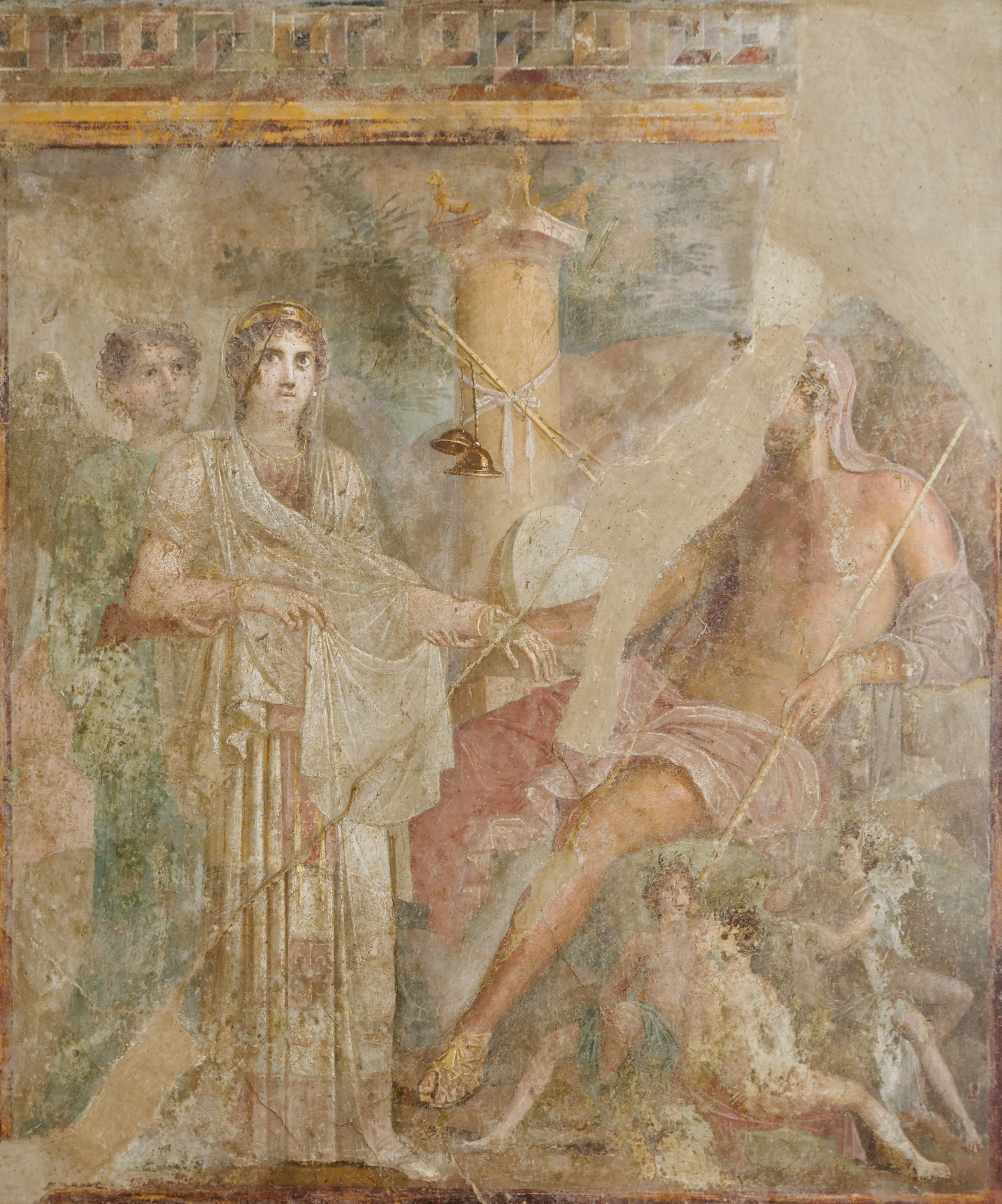 Wedding of Zeus and Hera.